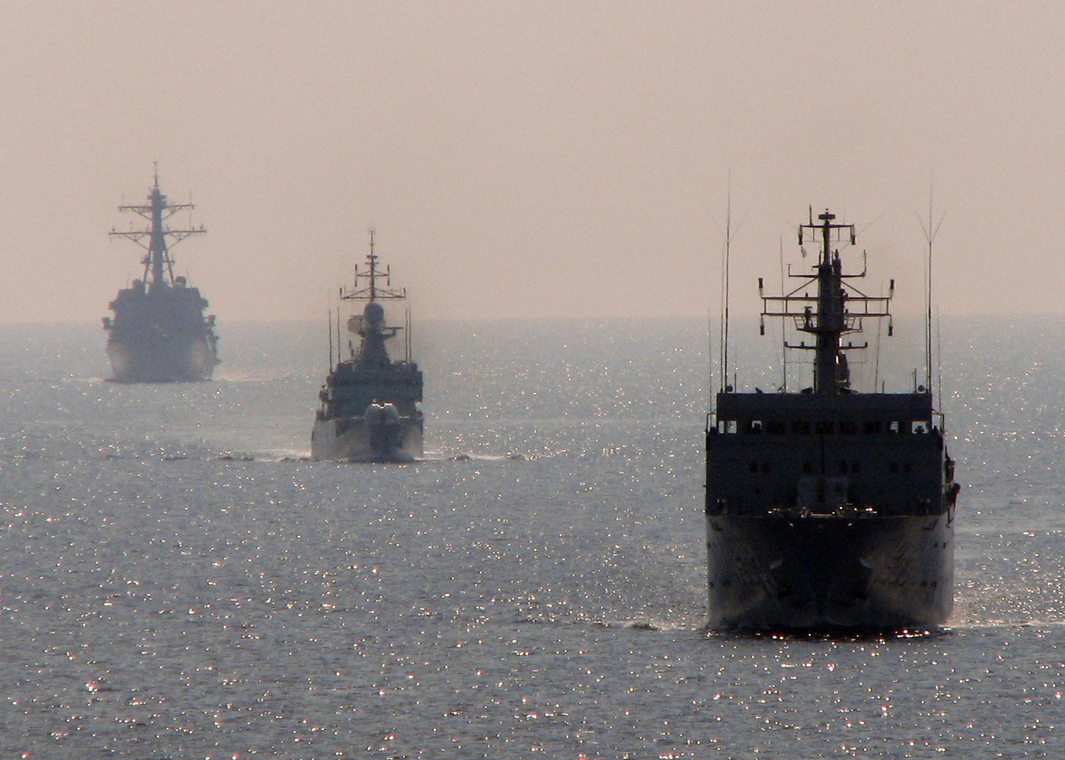 SOUTH CHINA SEA (June 27, 2009) The Royal Malaysian Navy multi-role support ship KD Sri Indera Sakti maneuvers ahead of the corvette KD Lekir and the guided-missile destroyer USS Chung-Hoon (DDG 93) during the at-sea phase of Cooperation Afloat Readiness and Training (CARAT) Malaysia 2009. CARAT is a series of bilateral exercises held annually in Southeast Asia to strengthen relationships and enhance the operational readiness of the participating forces. (U.S. Navy photo by Lt. Ed Early/Released)